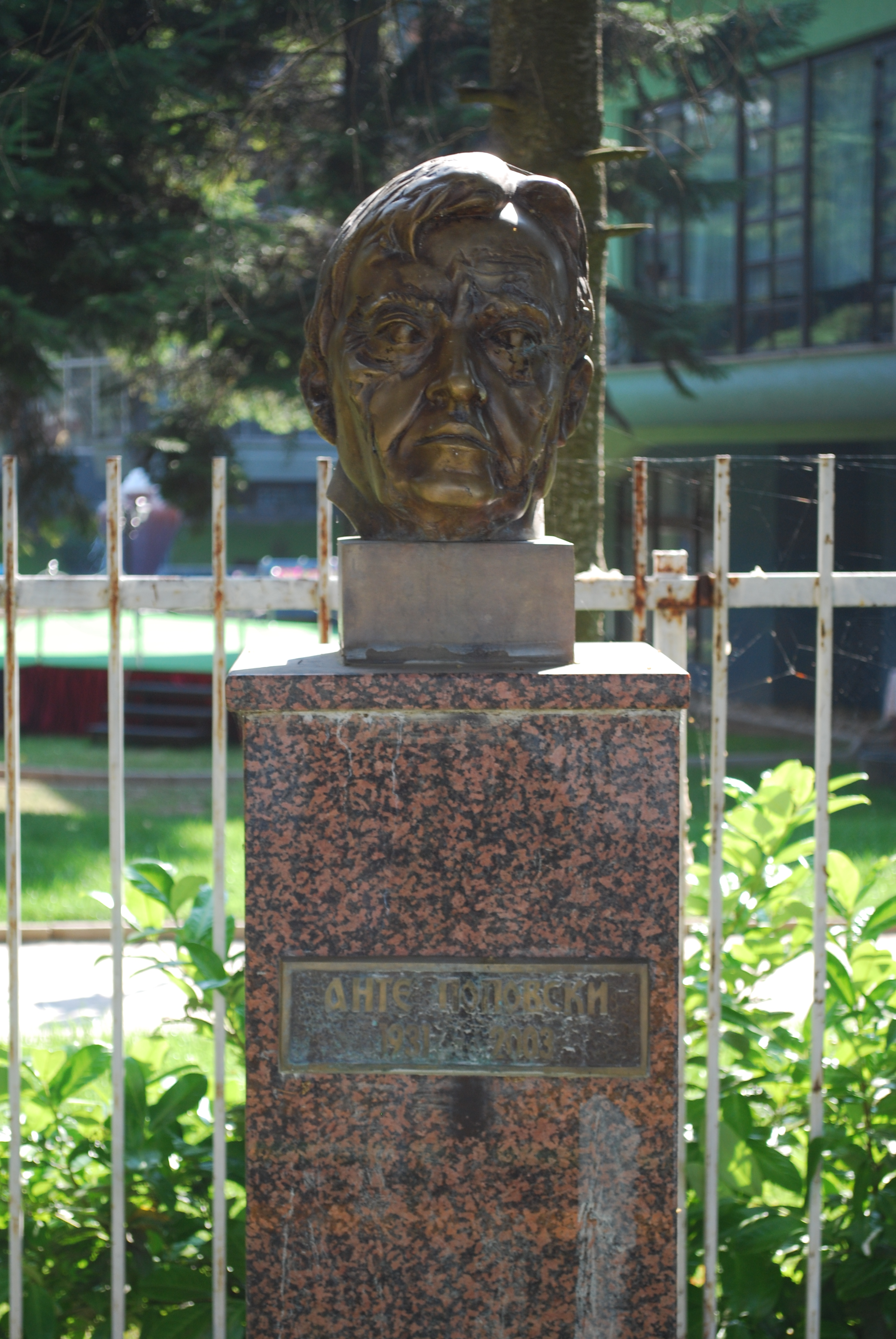 Monument of Ante Popovski in Struga, Macedonia